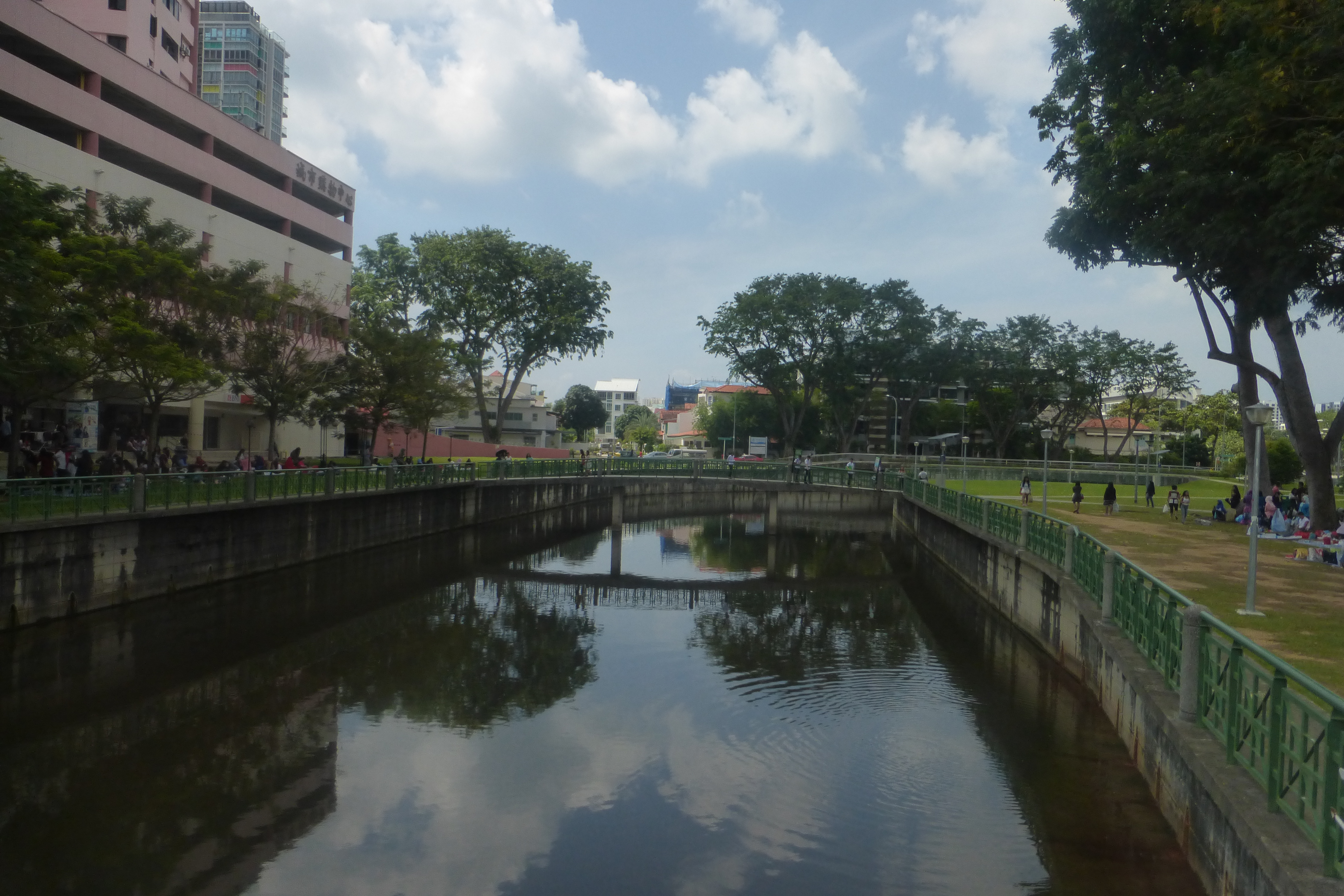 Geylang River (芽茏河) is a canalized river flowing from Geylang to Kallang of the Central Region in Singapore.